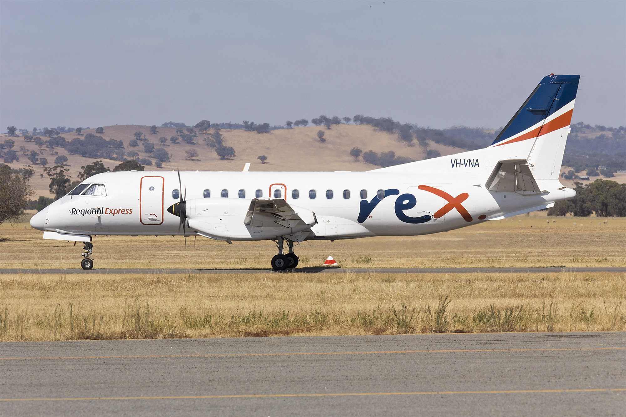 Regional Express Airlines (VH-VNA) Saab 340B at Wagga Wagga Airport.